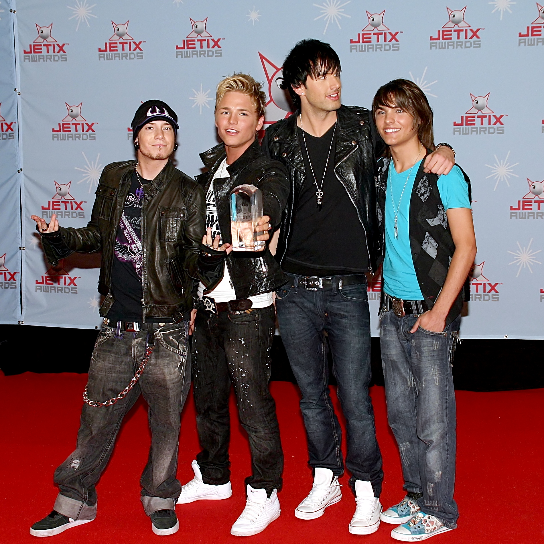 US5 during the conferment of the JETIX Award at the youth fair "YOU", Berlin